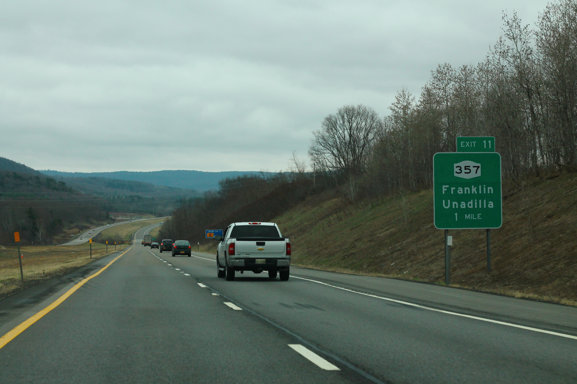 Int88wRoad-Exit11-NY357signOneMile